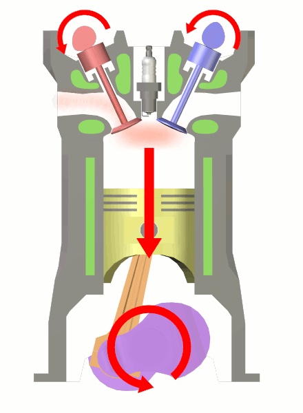 Illustration of the Four-stroke cycle